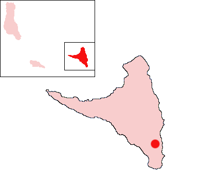 Ongoujou, Anjouan, Comoros Location Map; created with the GIMP. Made by User:Acntx.